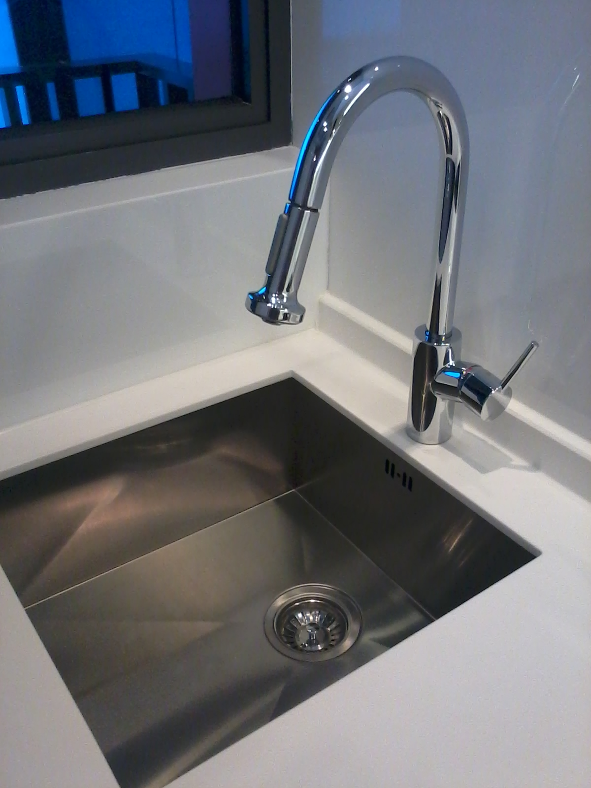 2012年10月, 香港zh:新界 烏溪沙 溪沙路 8號, 迎海, Double Cove Show Flat, 21th Floor, IFC One, Central, Hong Kong